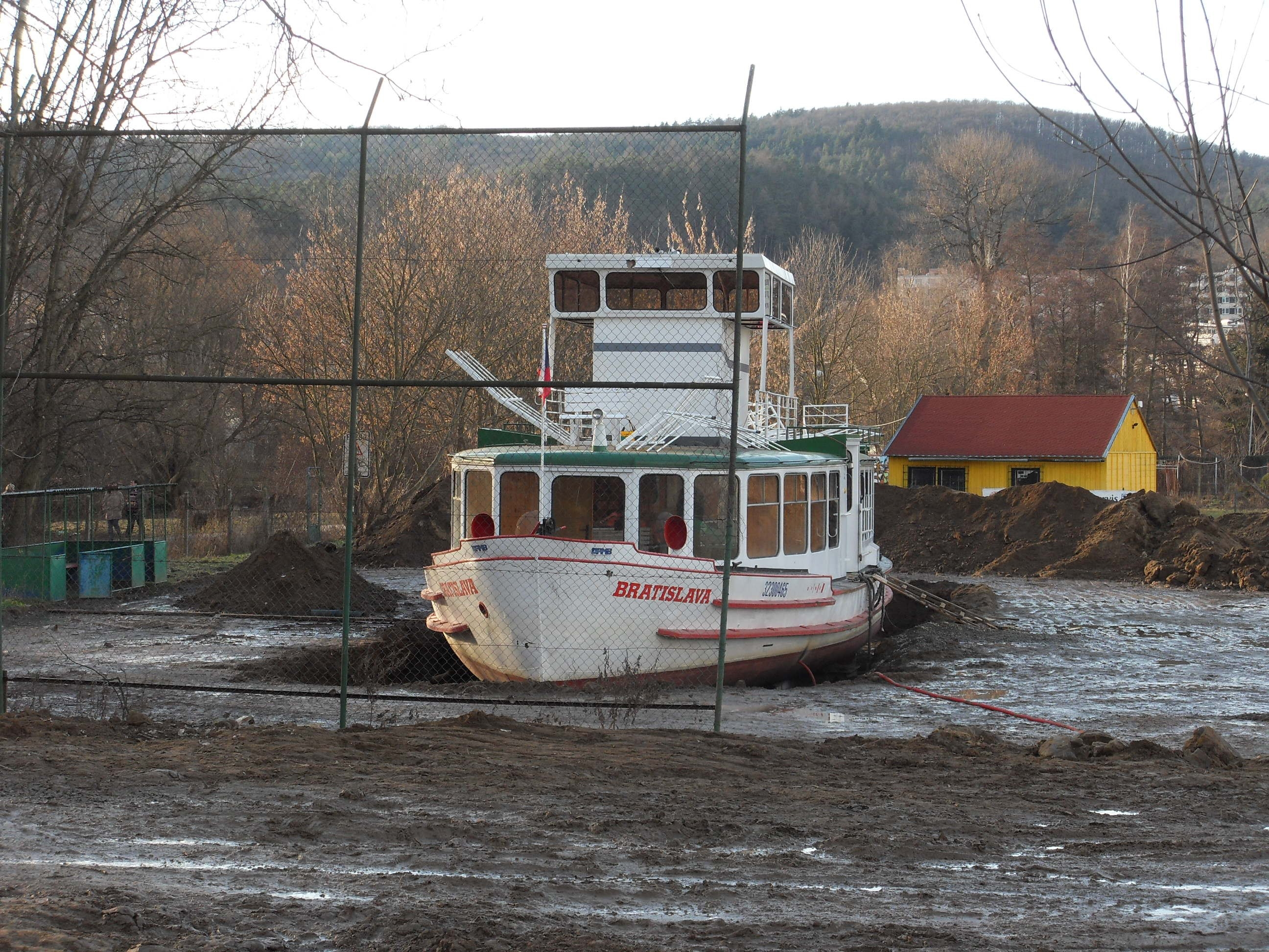 Bratislava ship, Brno-Komín, Czech Republic